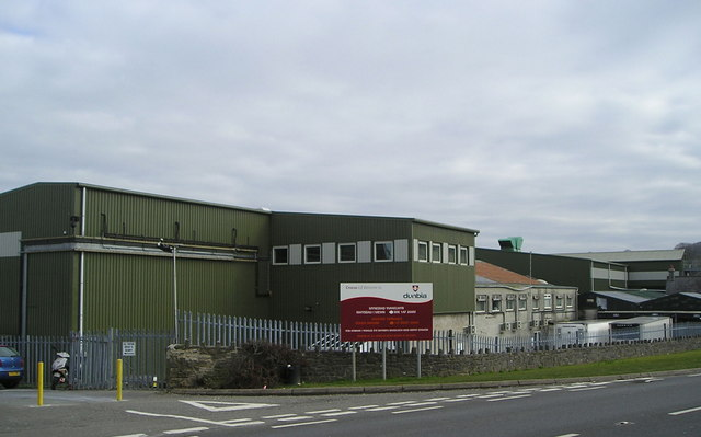 Dunbia, Meat Processing Plant